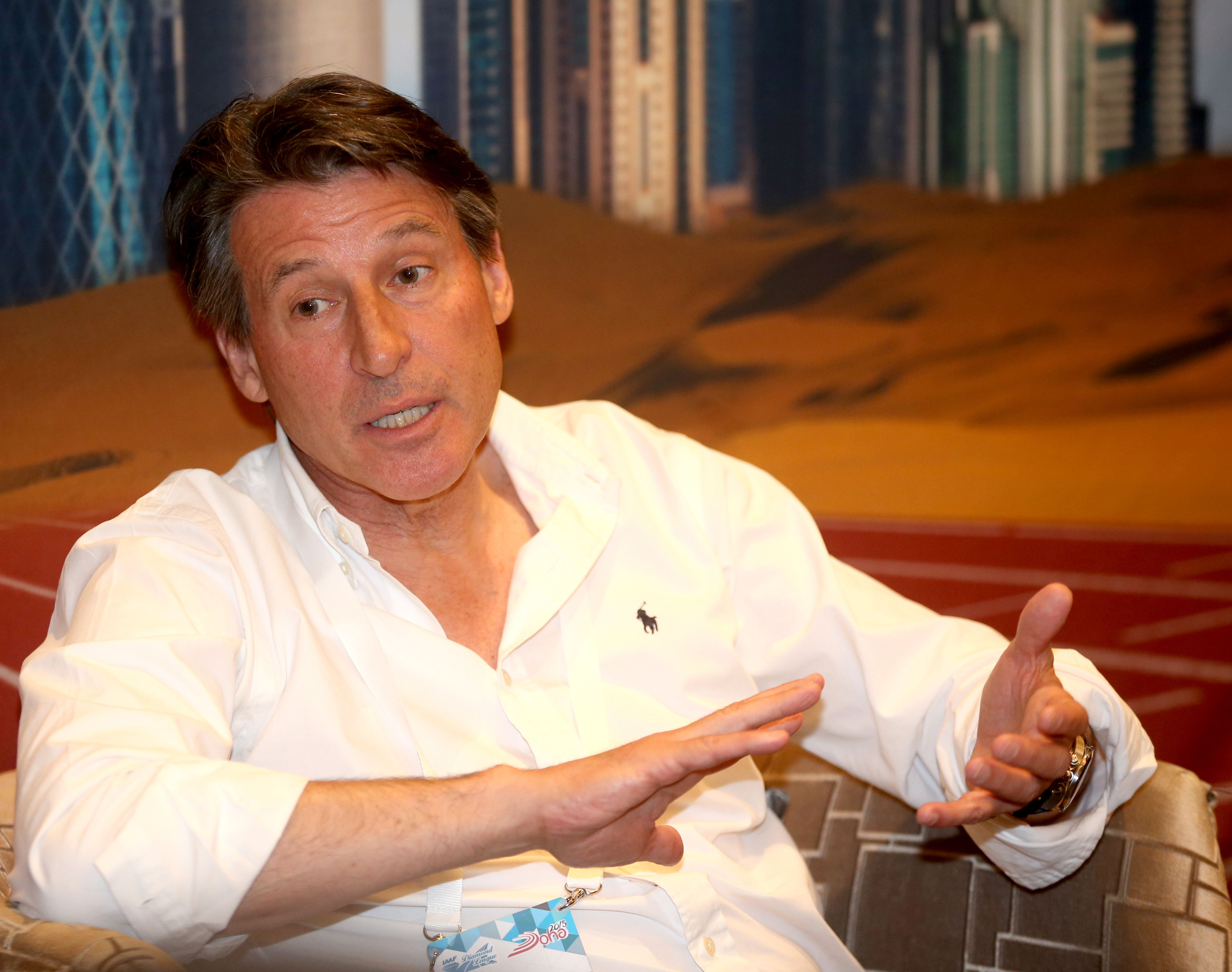 Briton Sebastian Coe during an interactive session during the Doha Diamond League.